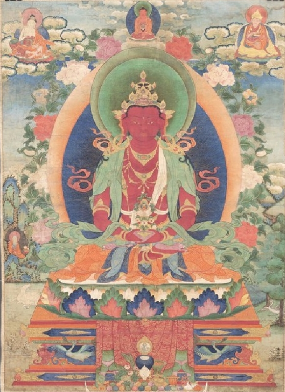 Tibetan thangka of Amitayus Buddha, from the gelug sect.